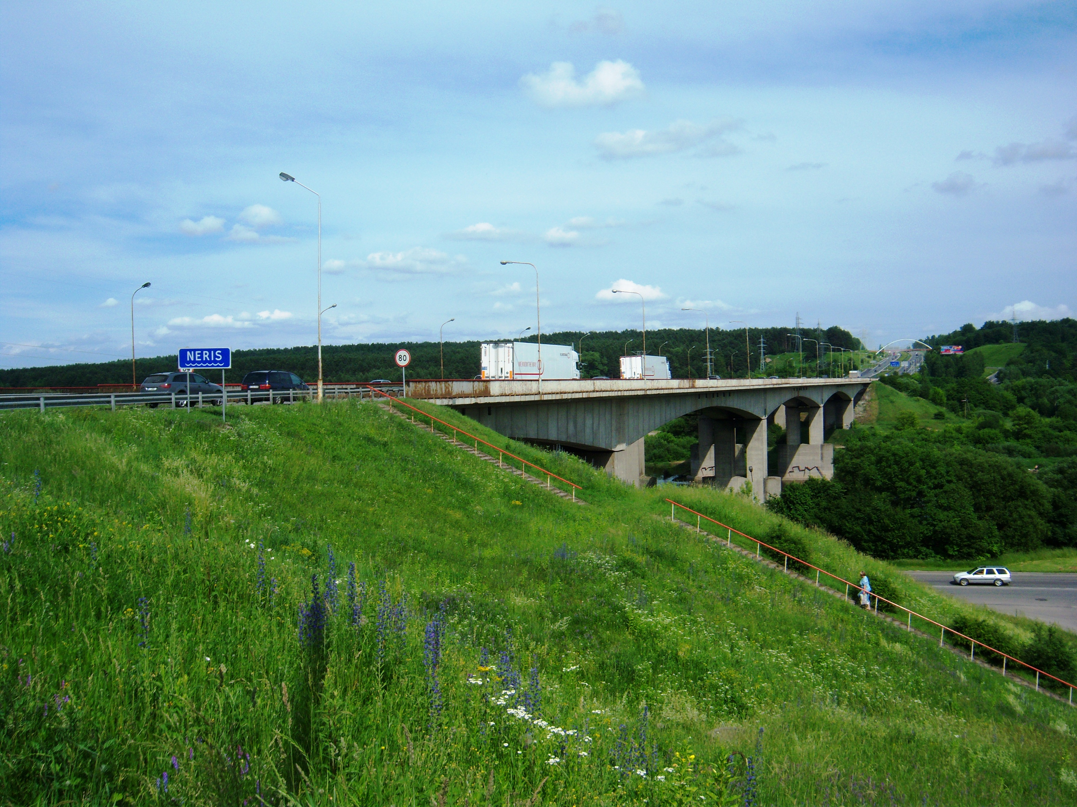 Kleboniškis Bridge over the Neris, Kaunas, Lithuania